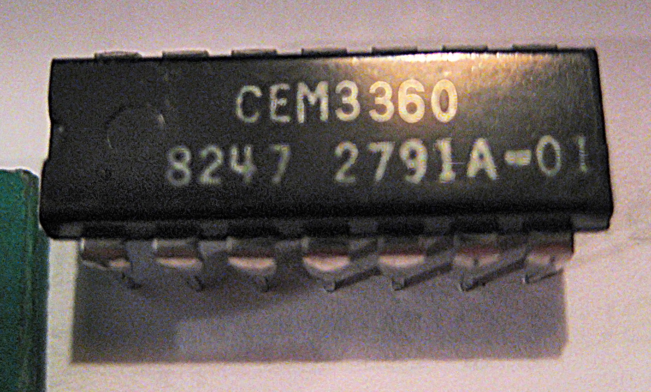 CEM3360 Dual VCA 8247 2791A-01 The suspected faulty VCA. (on PPG Wave 2.2 No. unknown) The date code on this device indicates that it was manufactured during the 47th week of 1982.